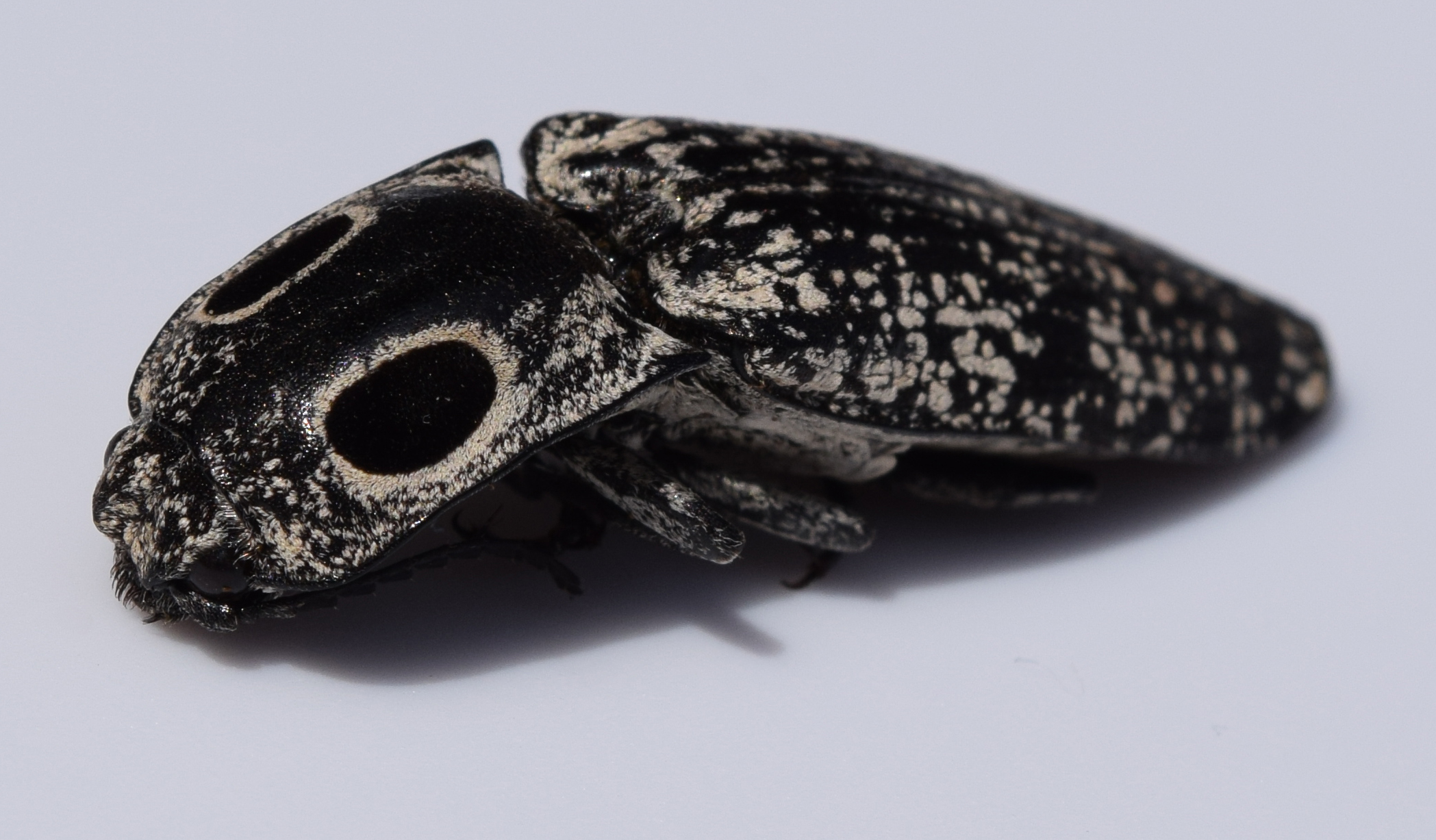 Alaus oculatus (eastern-eyed click beetle) at the University of Mississippi Field Station